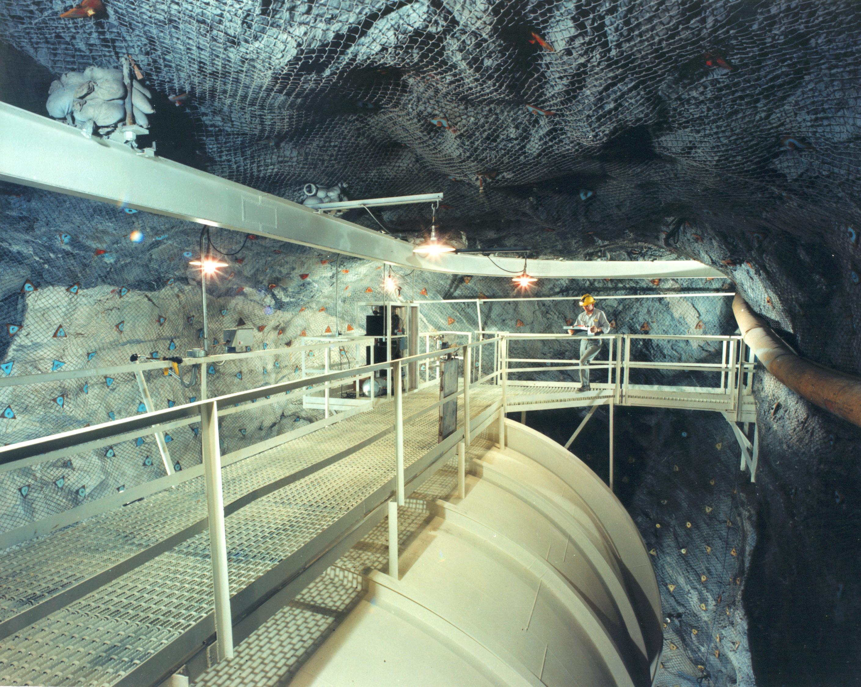 THE UNDERGROUND TANK WHERE BROOKHAVEN'S SOLAR NEUTRINO EXPERIMENT TOOK PLACE. THE NEUTRINO INTERACTIONS IN BROOKHAVEN'S SOLAR NEUTRINO EXPERIMENT TOOK PLACE IN THIS MASSIVE TANK, ONE MILE UNDERGROUND IN THE HOMESTAKE GOLD MINE IN SOUTH DAKOTA. BROOKHAVEN SCIENTIST RAYMOND DAVIS WON THE 2002 NOBEL PRIZE IN PHYSICS FOR HIS WORK IN DETECTING SOLAR NEUTRINOS, THE GHOSTLIKE PARTICLES PRODUCED IN THE NUCLEAR REACTIONS OCCURRING IN THE CORE OF THE SUN, PROVIDING THE SUN'S ENERGY. For more information or additional images, please contact 202-586-5251.